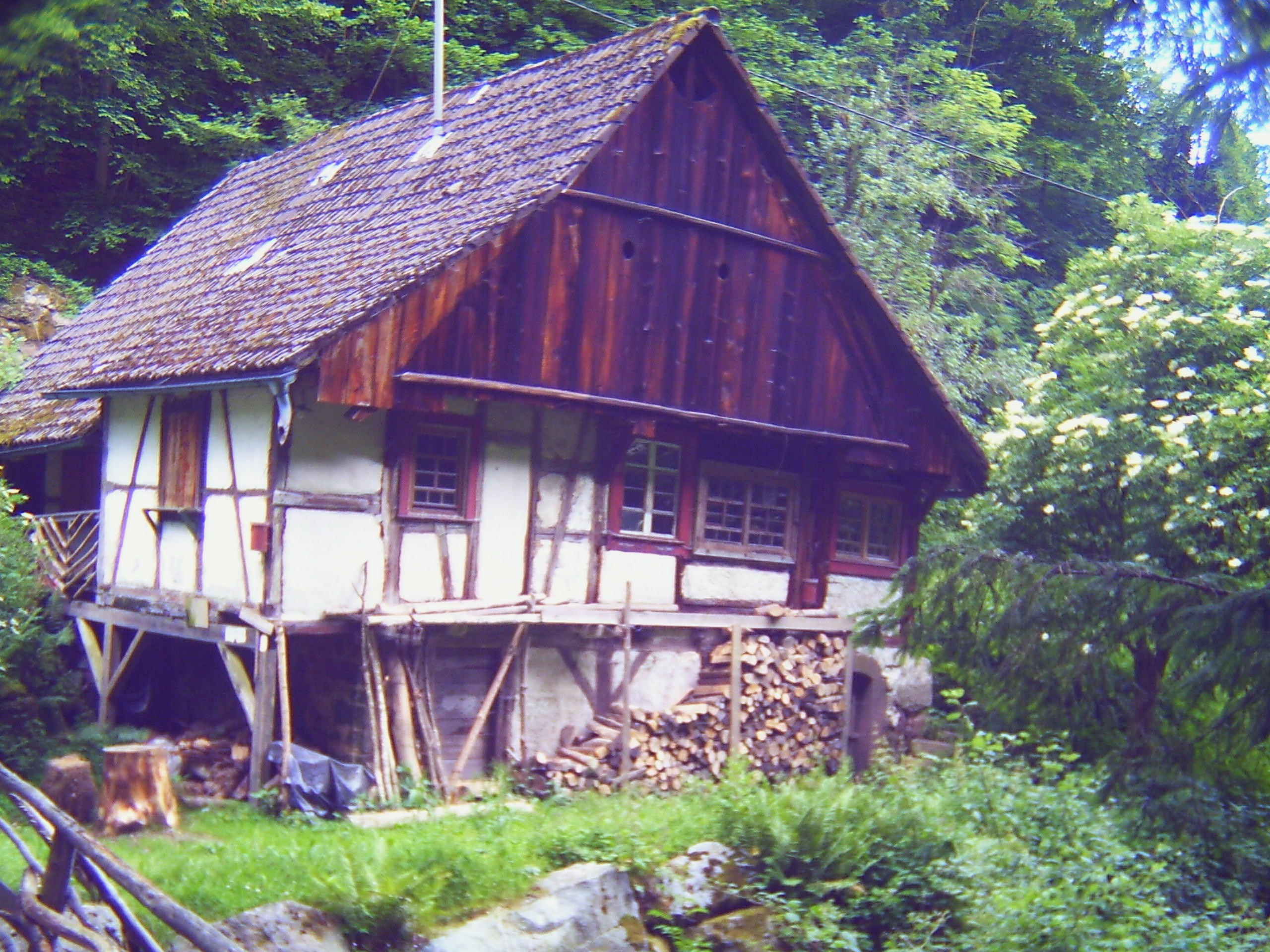 Old House in the Heubach Valley